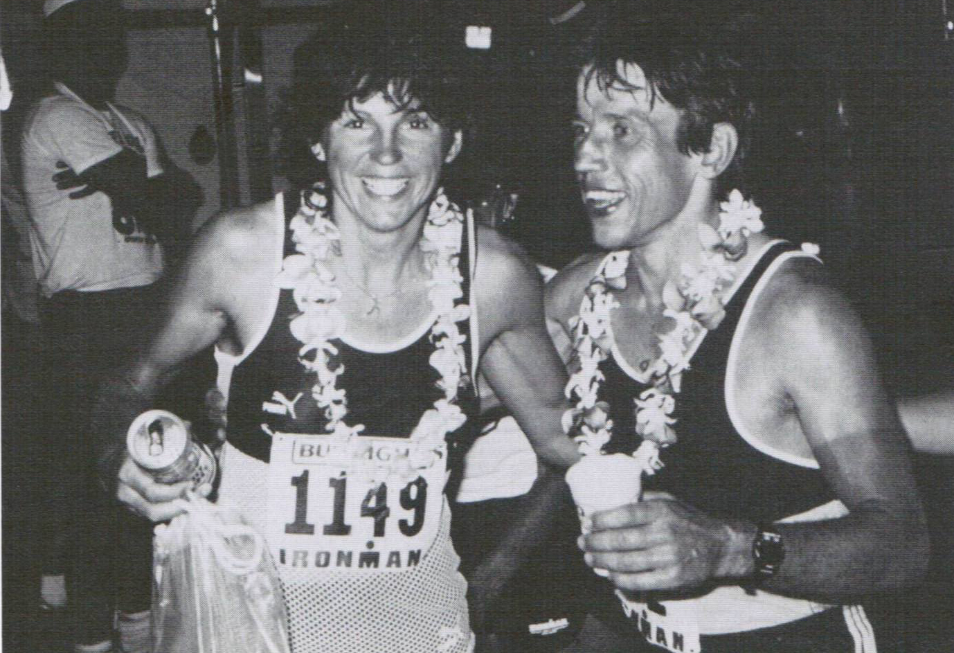 Ironman Hawaii 1984 Hanni Zehendner and Dr. Joachim Fischer